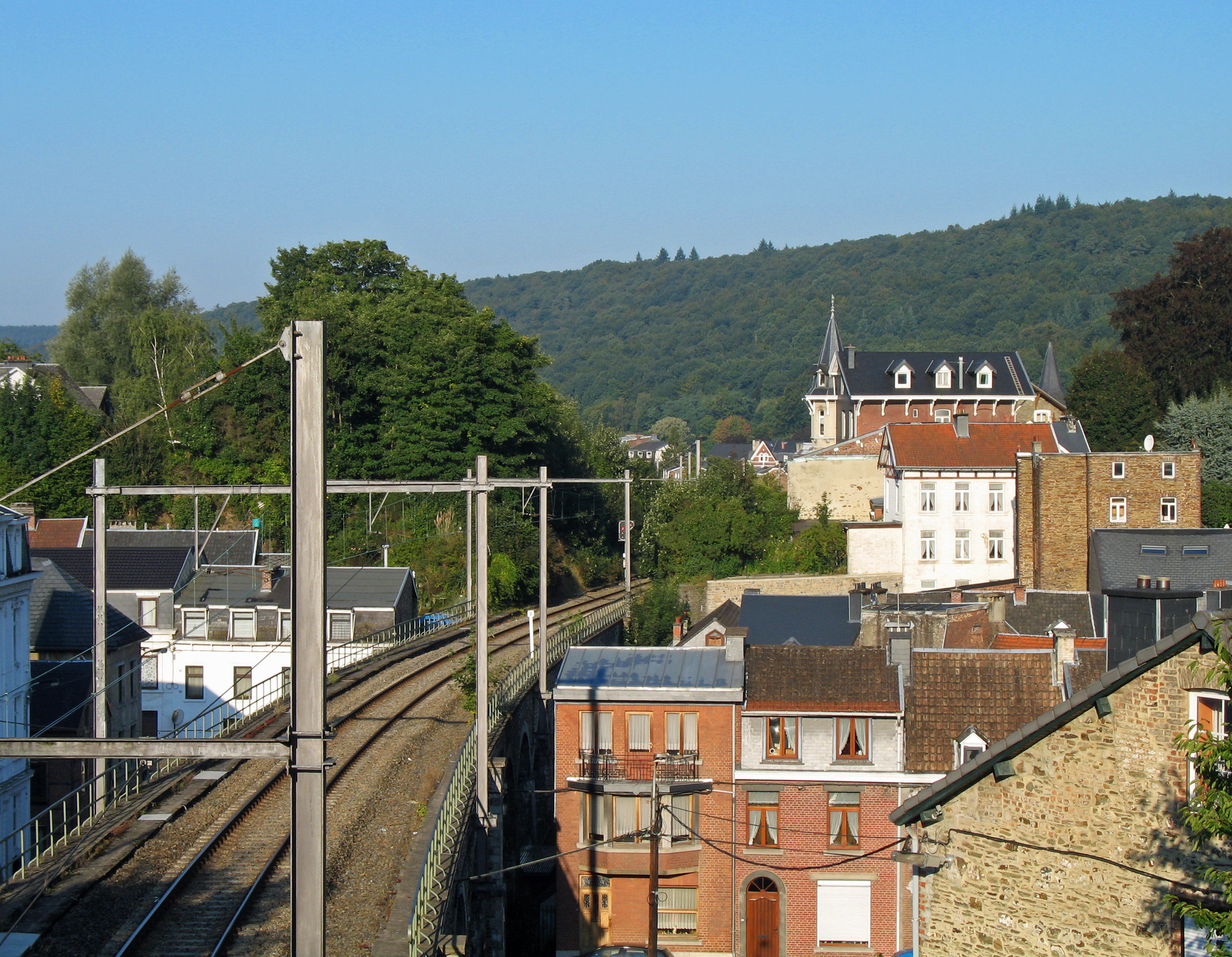 Railway line 44 in Spa (Belgium)